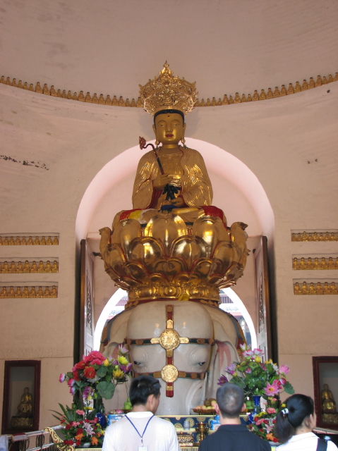 Samantabhadra-Bodhisattva on Mount Emei in Sichuan / PR China